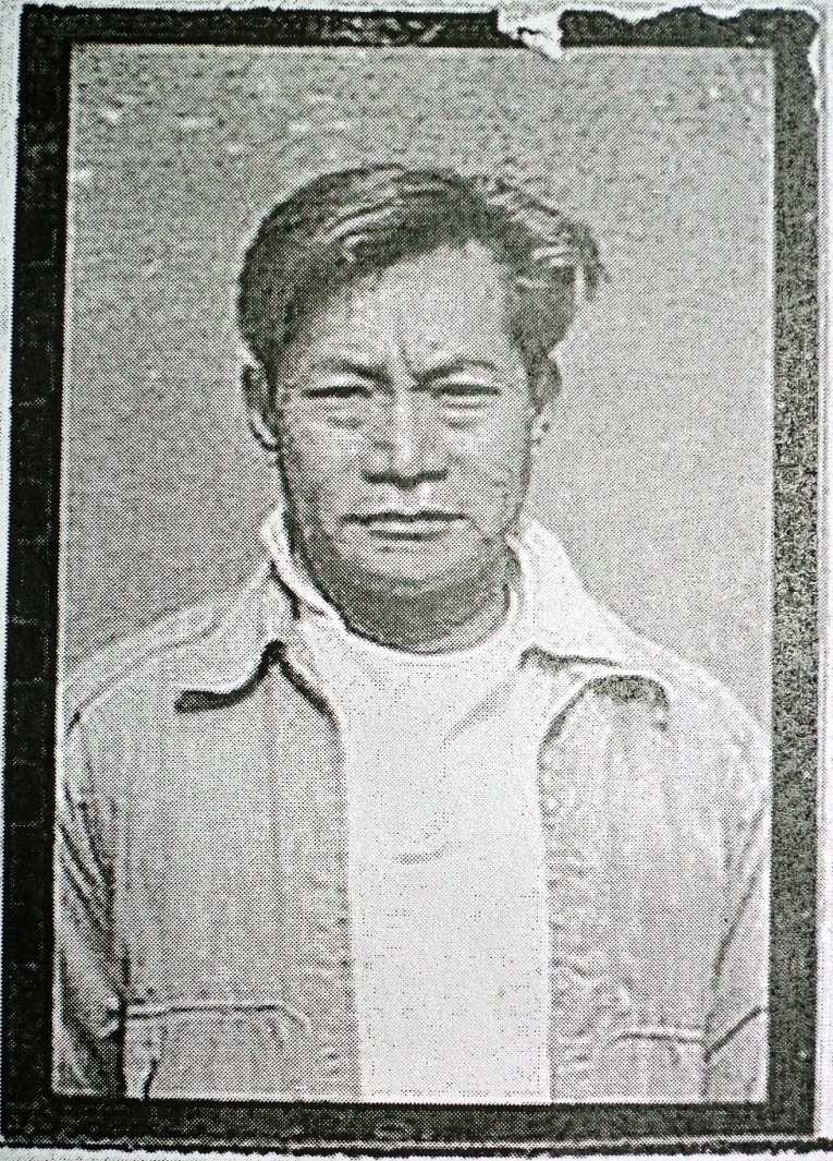 陳智雄 (1916-63) was arrested in 1961 in TAIWAN by the Kuomintang regime